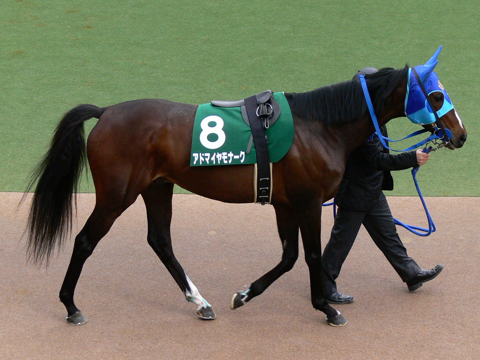 Admire Monarch アドマイヤモナーク at "Diamond Stakes"(JpnIII).